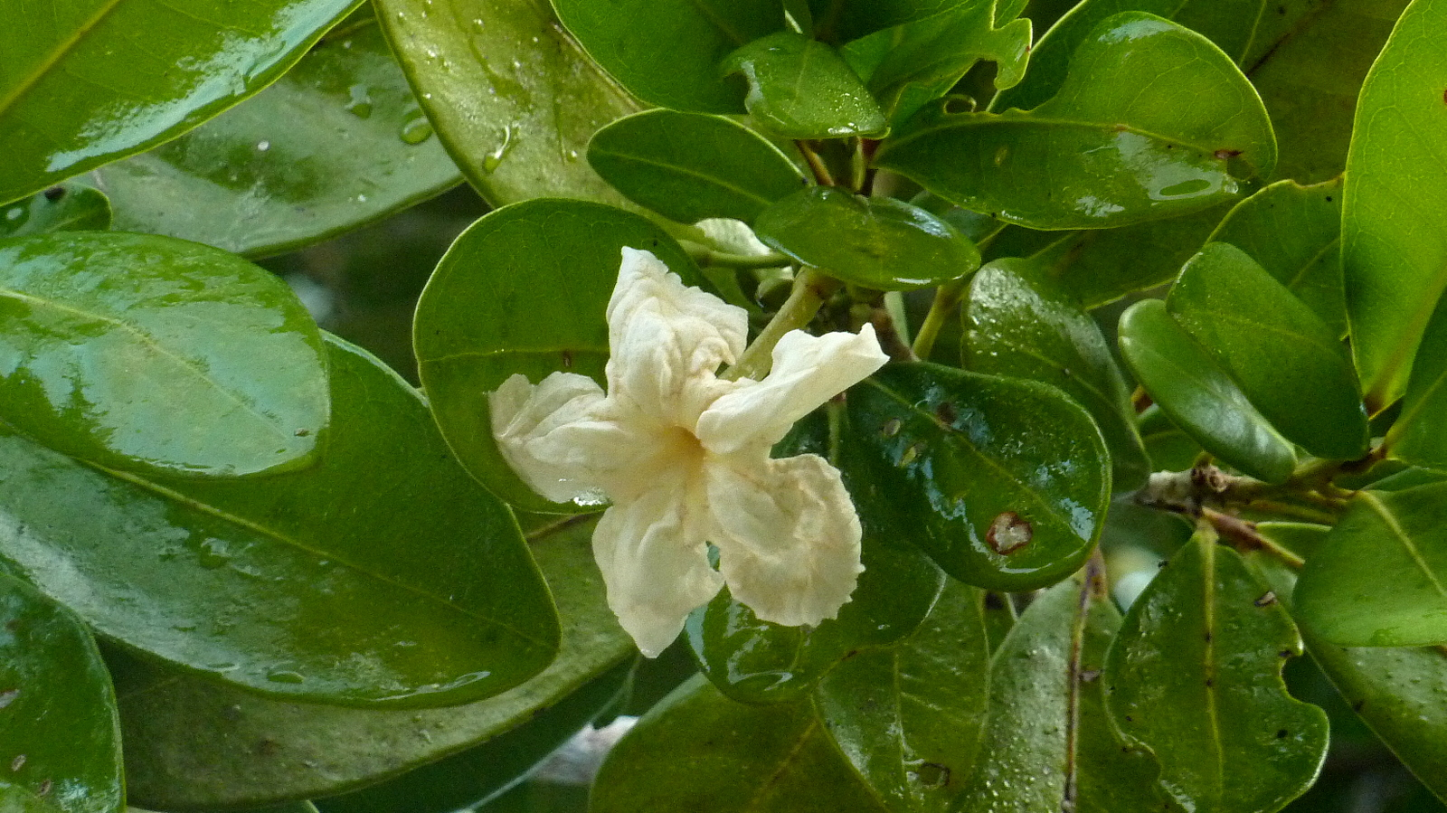 Tabebuia stenocalyx Sprague & Stapf Tabebuia stenocalyx